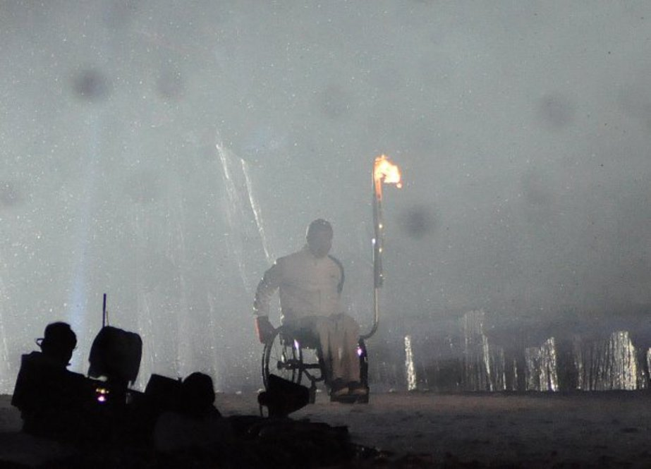 Paralympian Rick Hansen brings the Olympic flame into the stadium during the opening ceremony of the 2010 Winter Olympics.